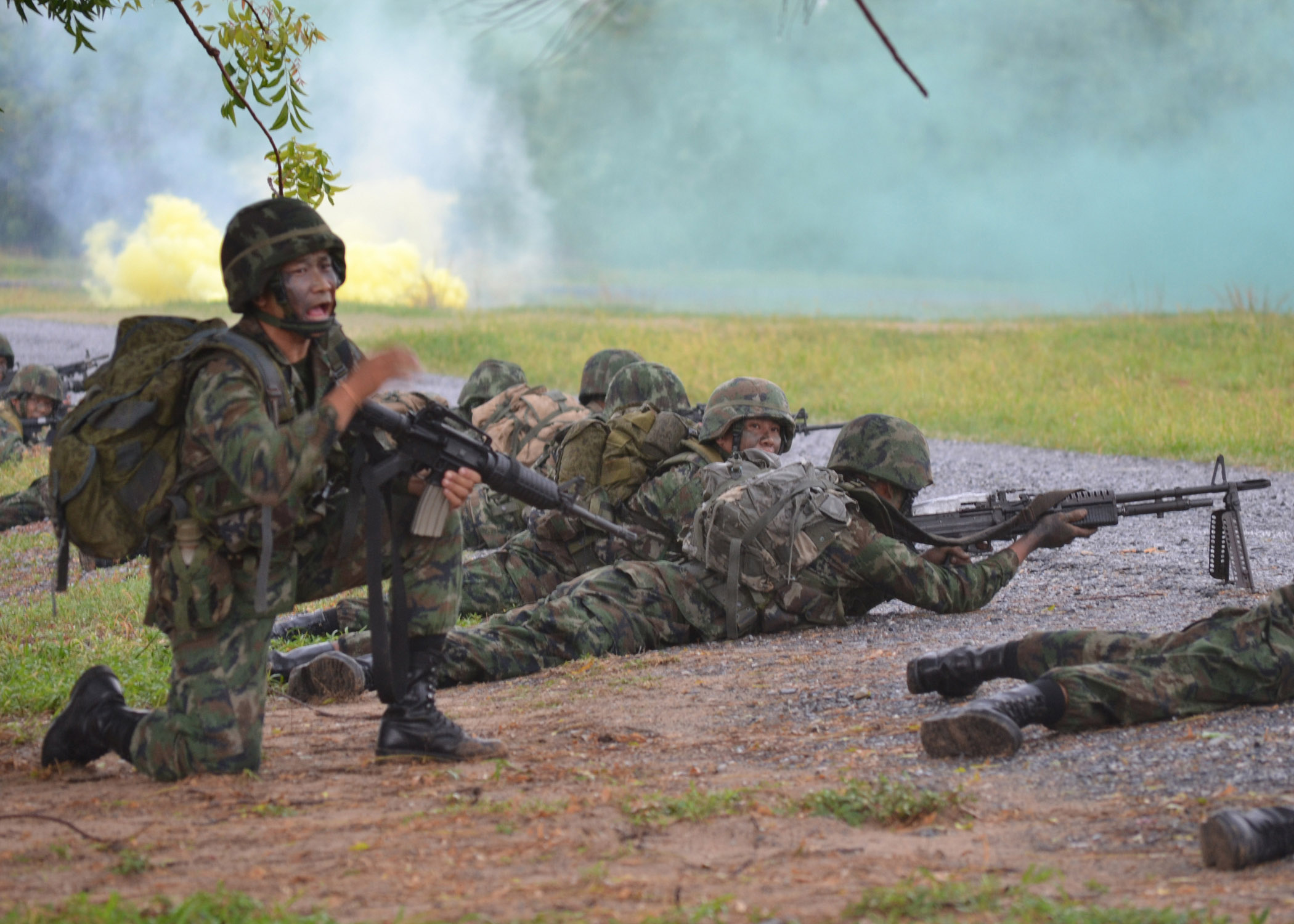 A Royal Thai Marine shouts orders to his troops as they land ashore during an amphibious assault evolution May 18, part of Cooperation Afloat Readiness and Training (CARAT) 2011. Marines from 2nd Battalion, 23rd Marine Regiment and 4th Assault Amphibian Battalion, 4th Marine Division, conducted a bilateral amphibious assault exercise with Thai Marine and Navy counterparts. CARAT is a series of bilateral exercises held annually in Southeast Asia to strengthen relationships and enhance force readiness. (U.S. Navy photo by Mass Communication Specialist 1st Class Jose Lopez, Jr./Released)